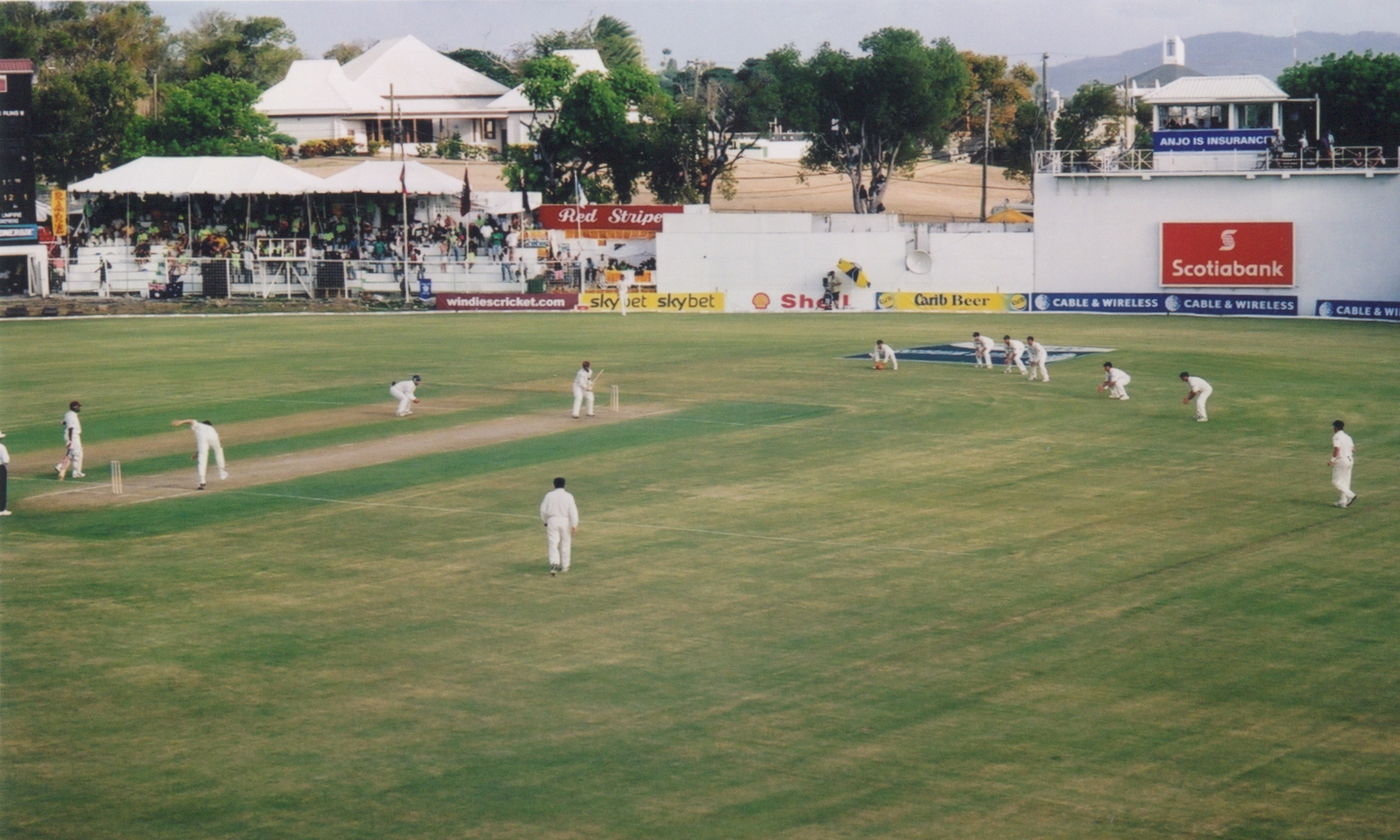 The Antigua Recreation Ground during the fourth Test of the Frank Worrell Trophy series in 2003 betweenthe West Indies cricket team and Australia.